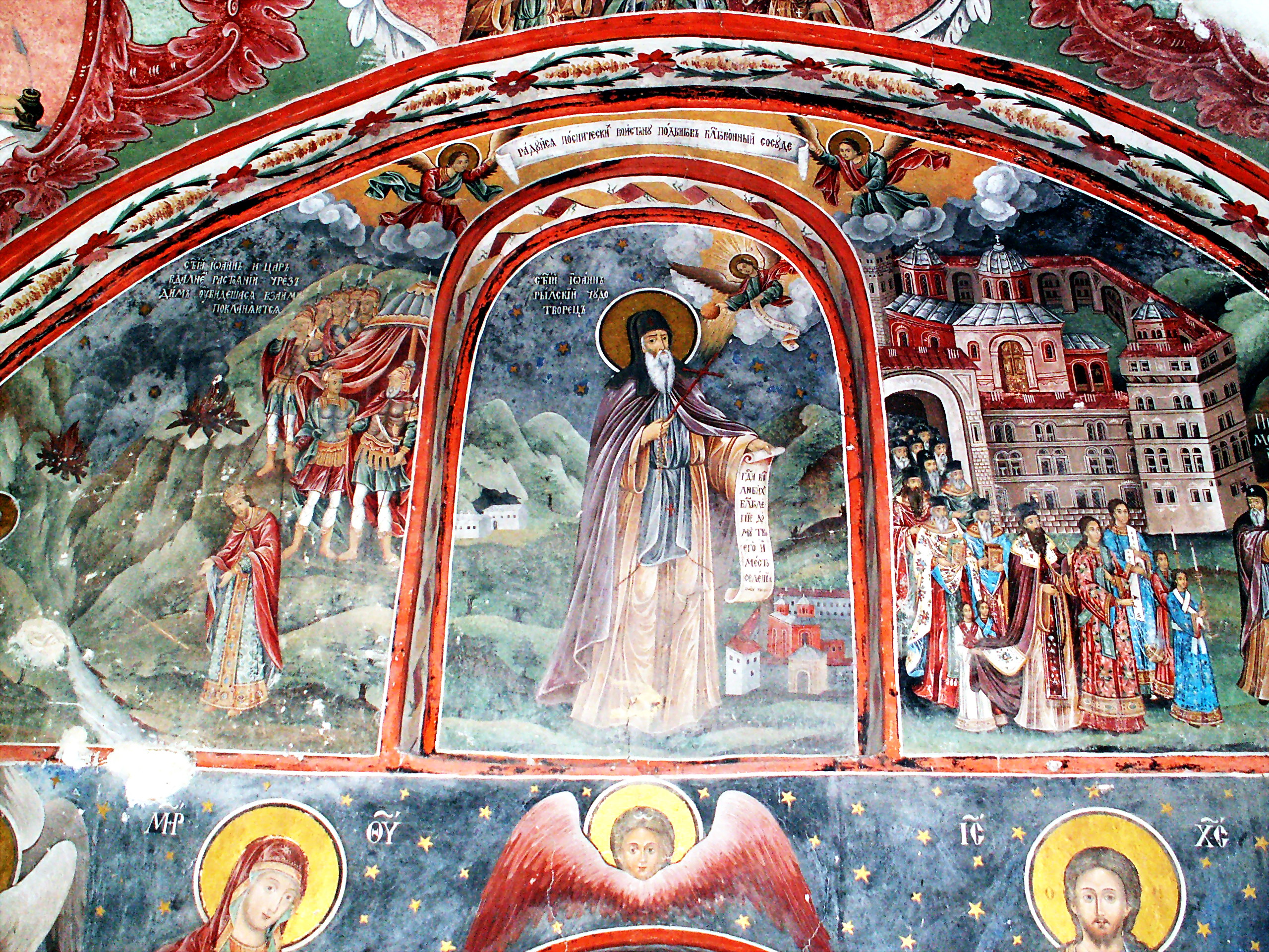 A fresco portrait of St. John of Rila - the Miracle Performer